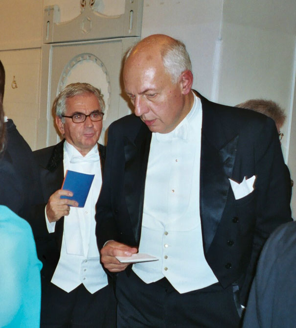 Rector Magnificus (vice chancellor) professor Göran Bexell (left) and "universitetsdirektör" (head of university administration) Peter Honeth (both of Lund University, Sweden) attending a students' ball at Akademiska Föreningen, October 2003. Photographer: Fredrik Tersmeden (Lund, Sweden).